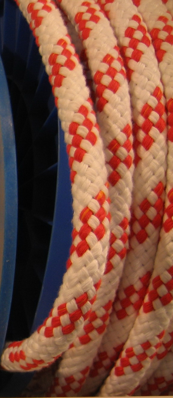 Braided rope